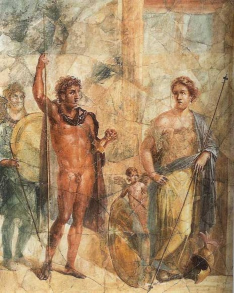 Marriage of Alexander and Statira as Ares and Aphrodite, fresco, ca. 60 A.D., copy after Aetion. Antiquarium, Pompeii